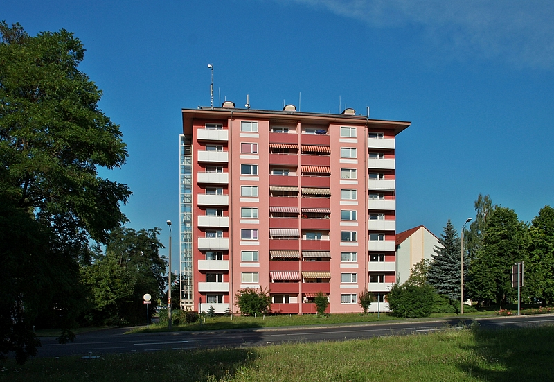 Pirna-Sonnenstein: "red high-rise", built 1957, first high-rise in the new Sonnenstein district.